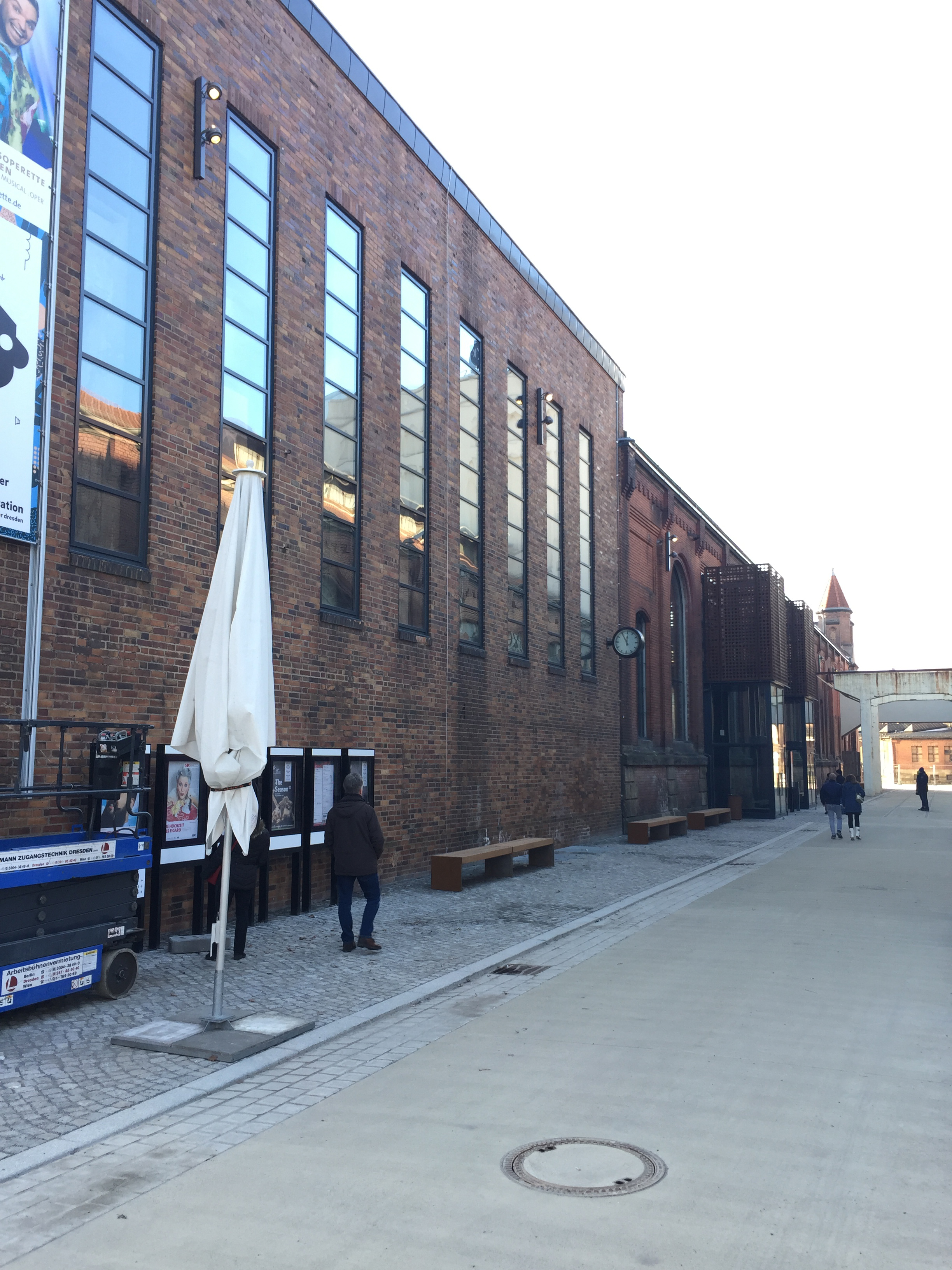 View trough the Theatergasse along the Theater Junge Generation / Staatsoperette Dresden